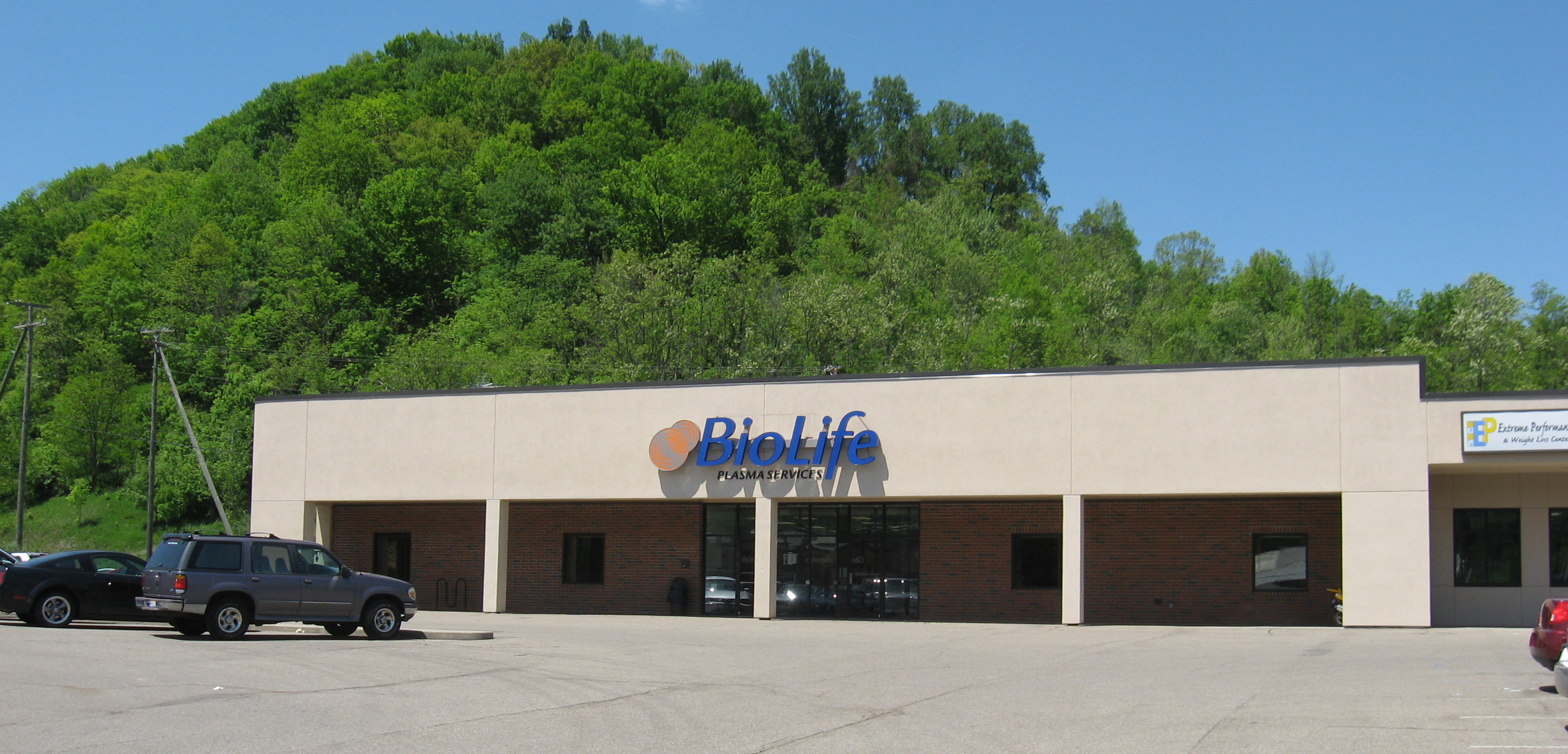 BioLife Plasma Services at (Athens, Ohio, USA). This branch was closed in January 2010.